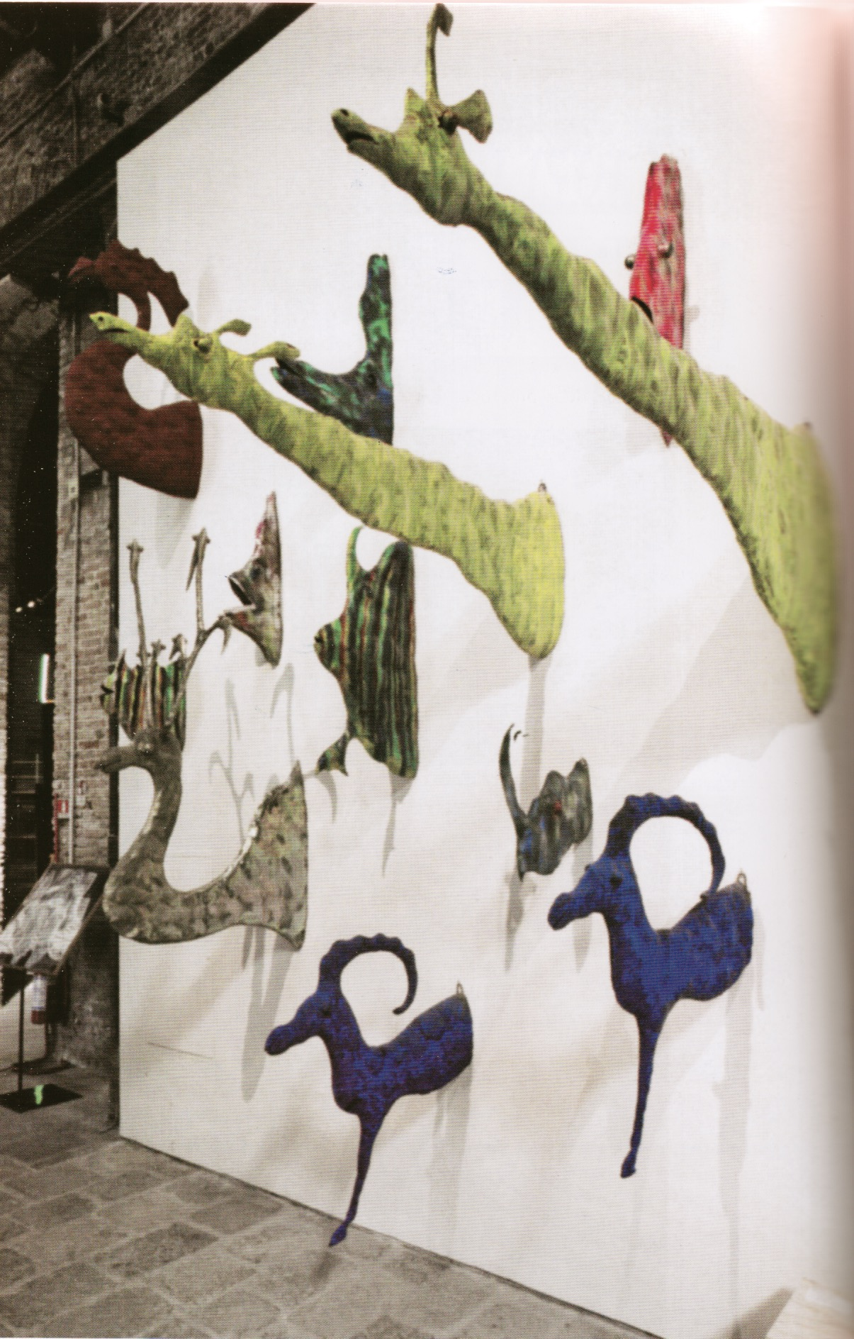 Tamburelli's installation at the 54th Biennale Internazionale d'arte, Venice 2011